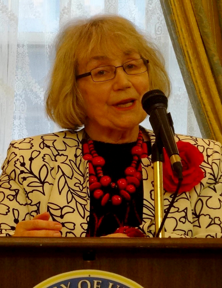 personal photo Larissa Onyshkevych